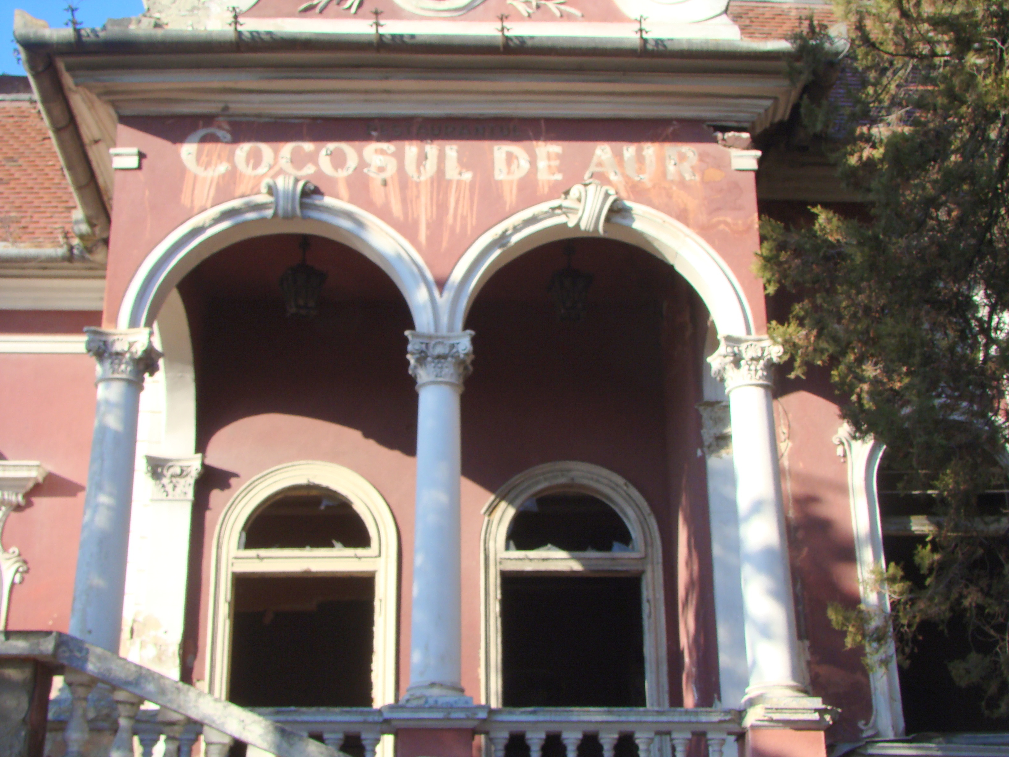 Bürger house in Târgu Mureș, Mureș county, Romania